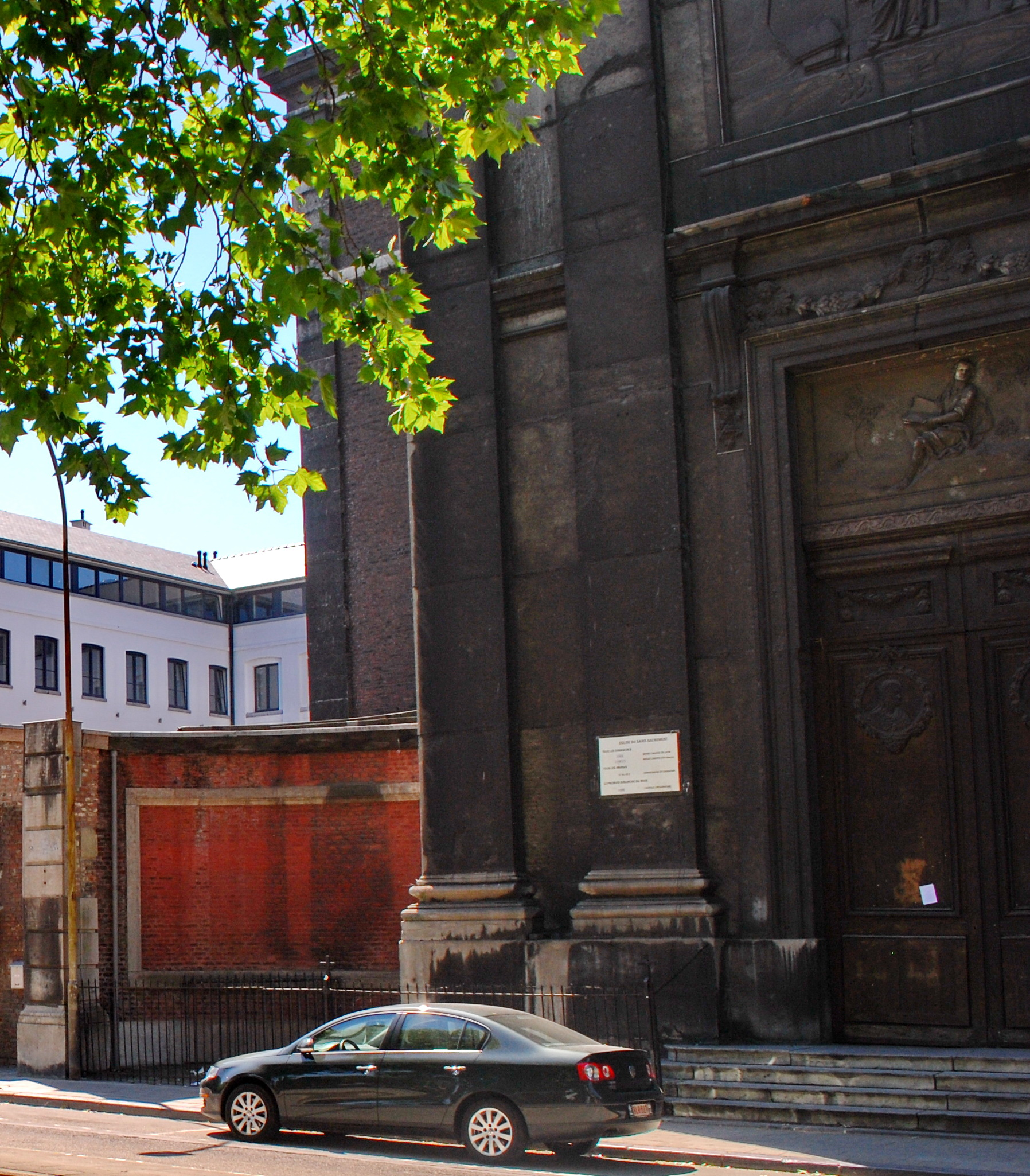 Part of the Augustinian monastery and the façade of the Church of the Holy Sacrement on Boulevard d'Avroy in Liège, Belgium.